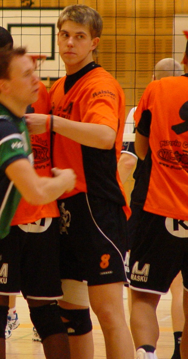 Finland volleyball player Kimmo Kutinlahti in Finland league game season 2007